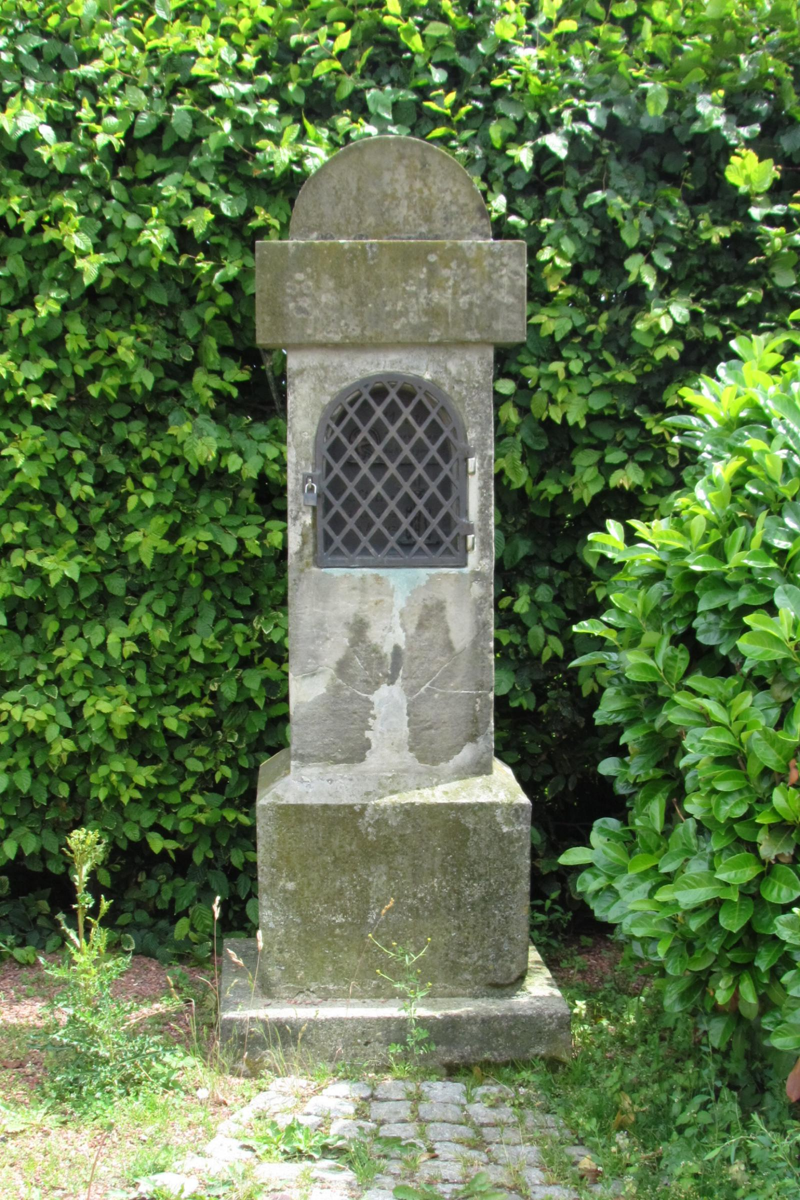 This is a photograph of an architectural monument.It is on the list of cultural monuments of Korschenbroich